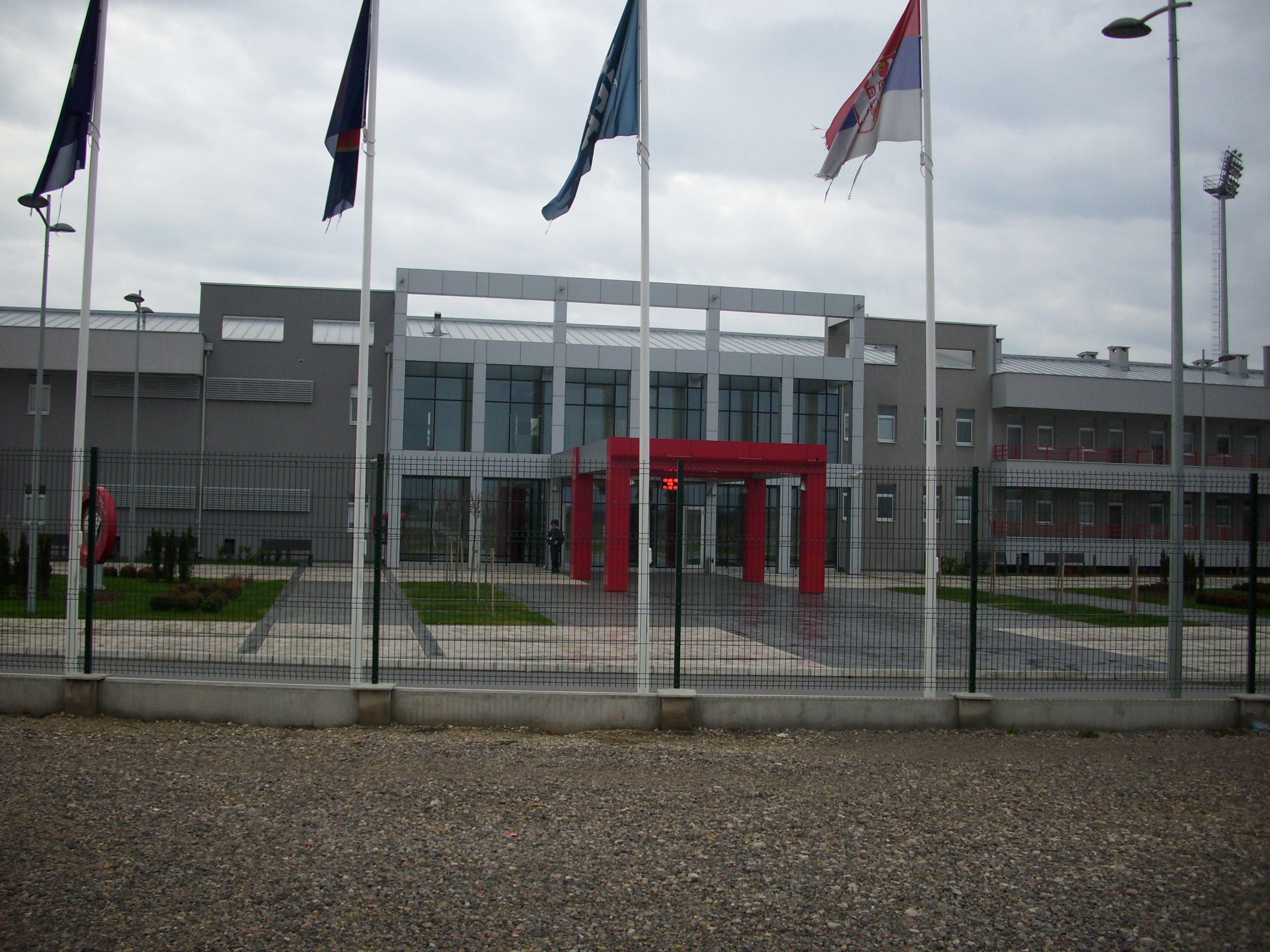 Sport center of Serbian Football Association in Stara Pazova